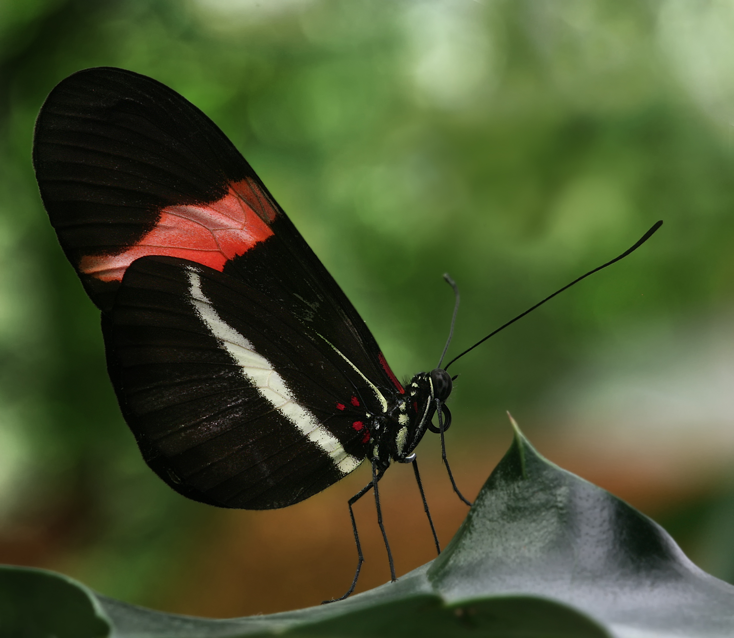 Heliconius comprise a colorful and widespread butterfly genus distributed throughout the tropical and subtropical regions of the New World. As shown Heliconius erato Note that this photo is not H. melpomene, but its mimic, H. erato. In H. melpomene, the yellow hindwing band bends downwards towards the apex of the hindwing, while in H. erato, it bends towards the costal margin.